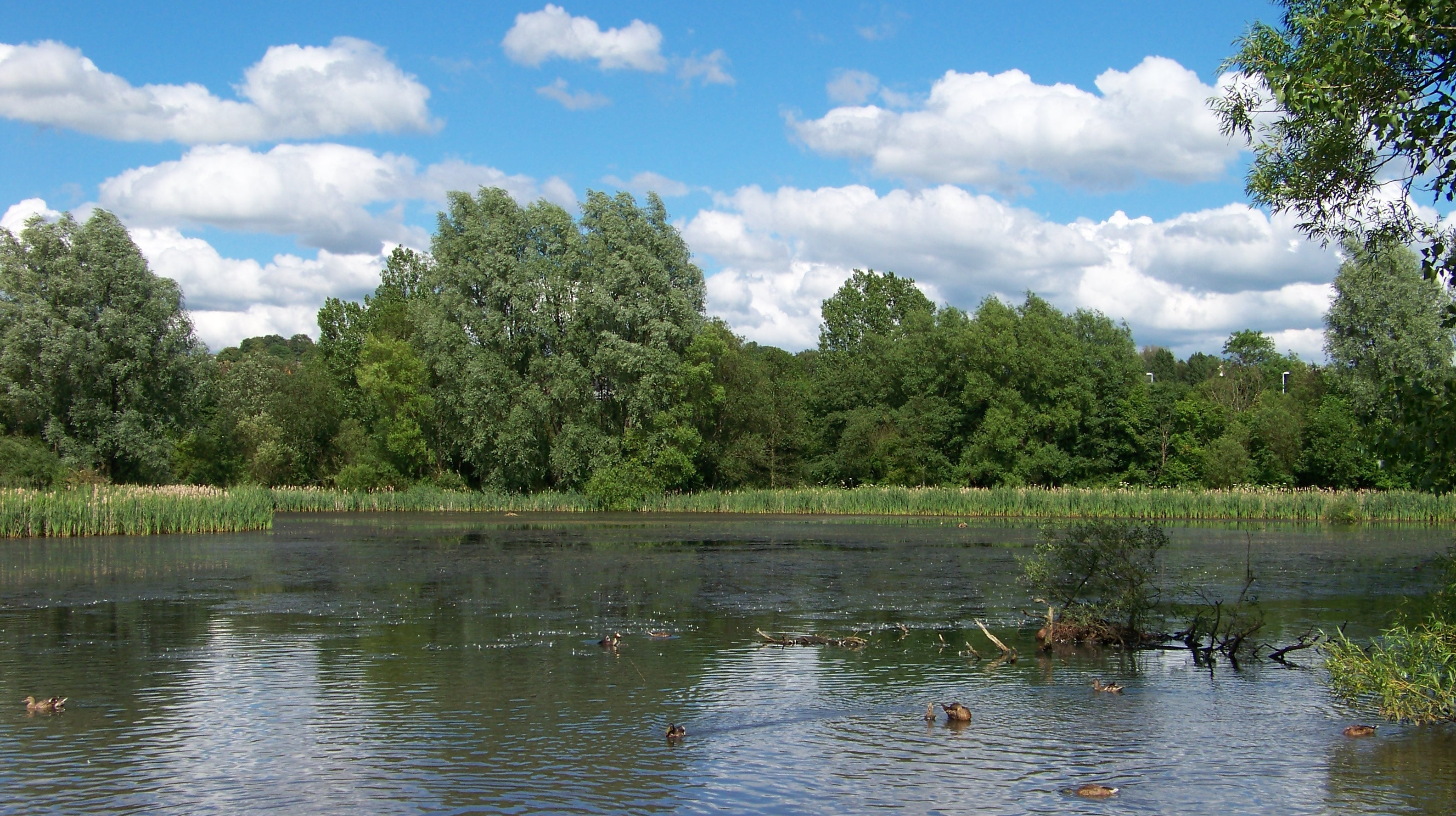 Ford Green Nature Reserve, Smallthorne